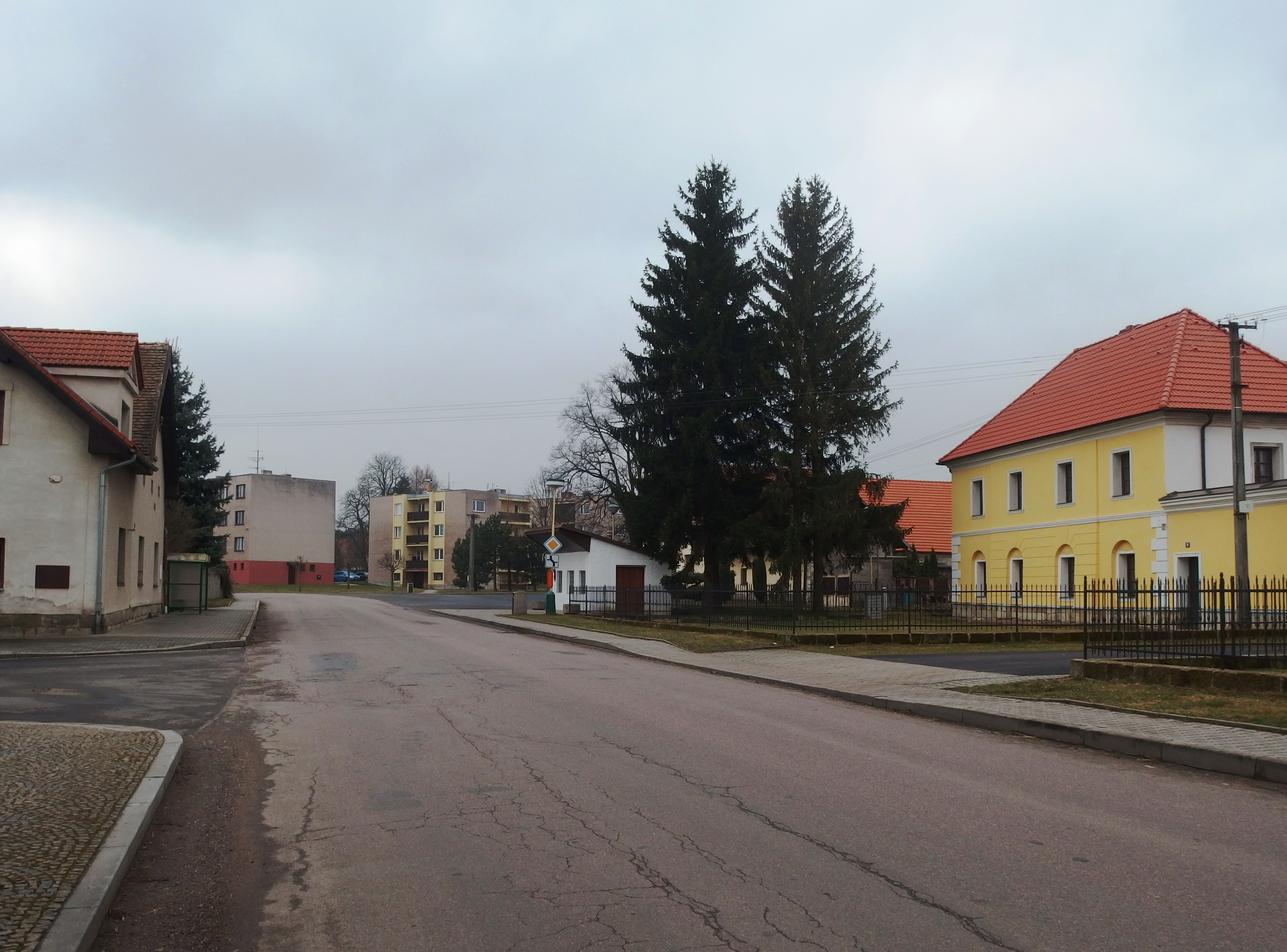 Kočí, Chrudim District, Czech Republic.